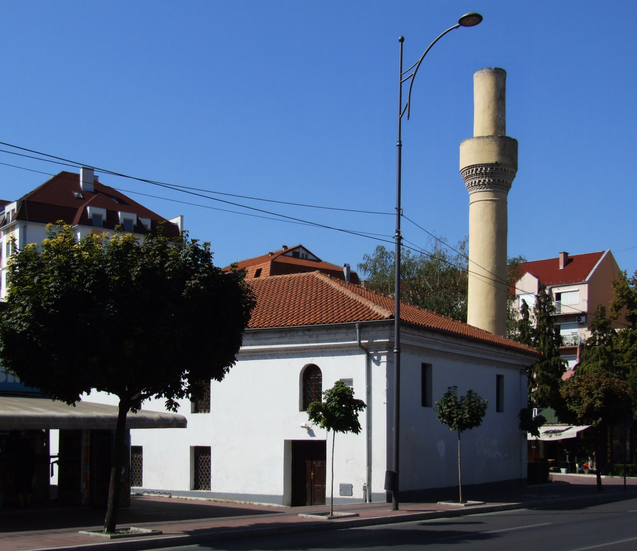 Islam-aga's Mosque in Niš, Serbia